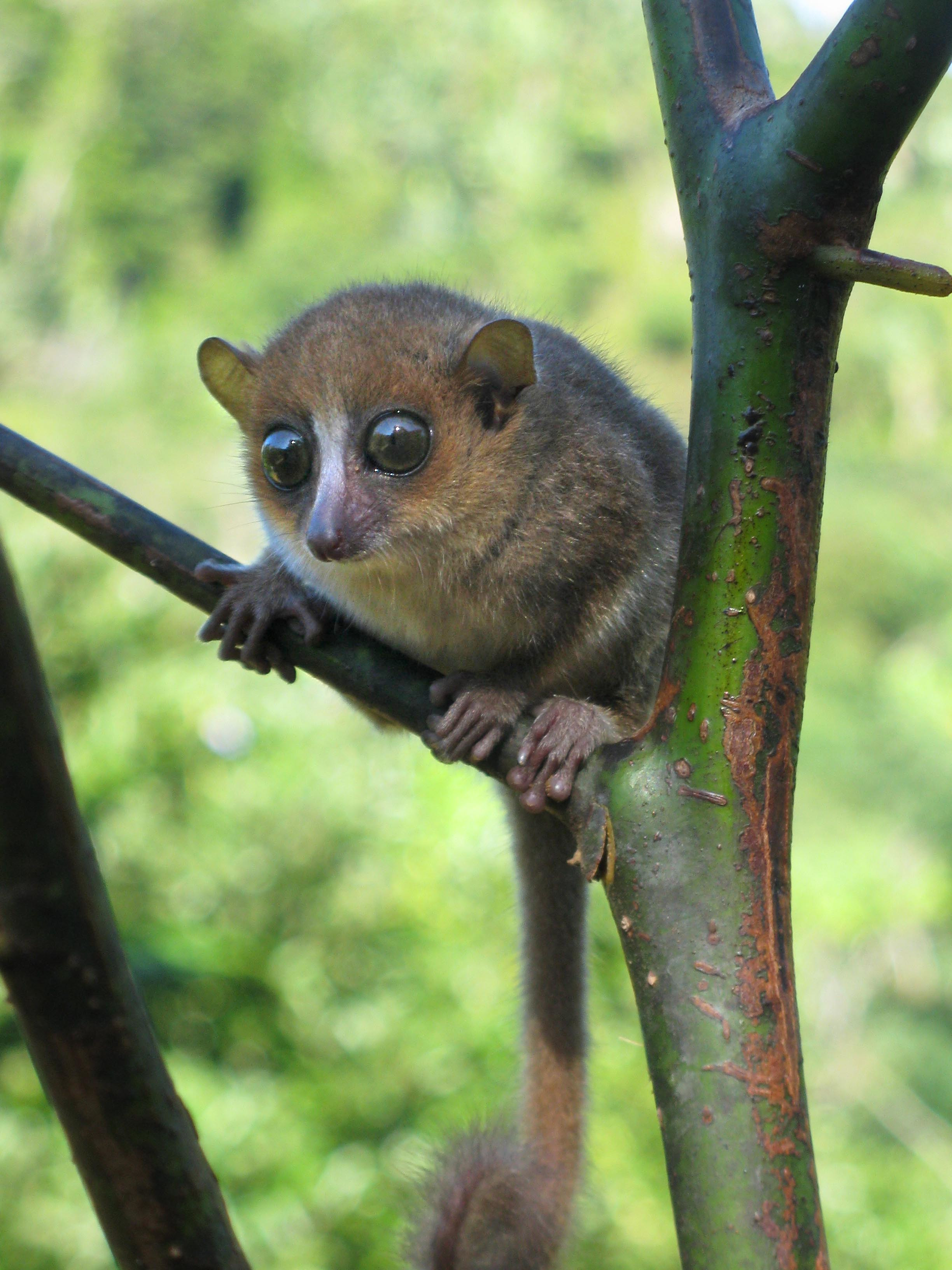 Gerp's mouse lemur (Microcebus gerpi): Paratype 03y09 fina (male)